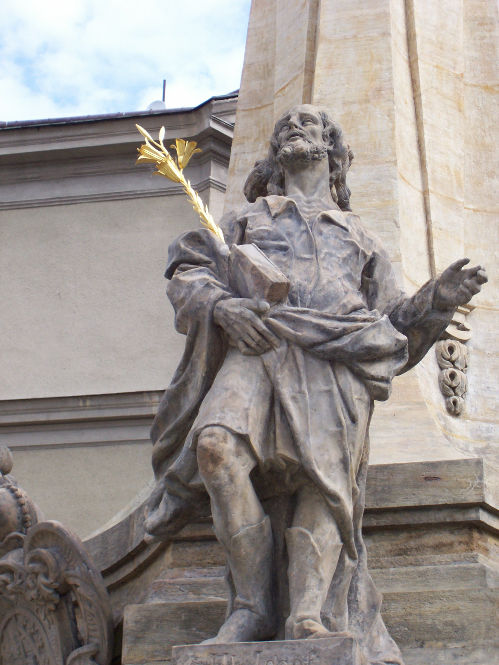 Šternberk: Marian Column - St. Joseph